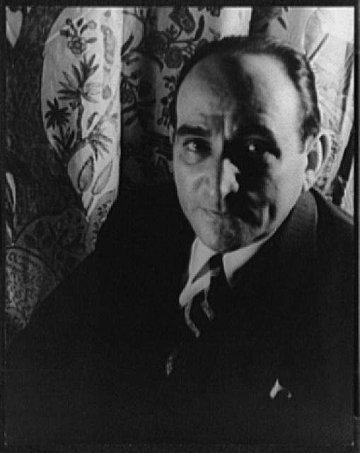 Title: Portrait of Maurice Sterne Abstract/medium: 1 photographic print : gelatin silver.